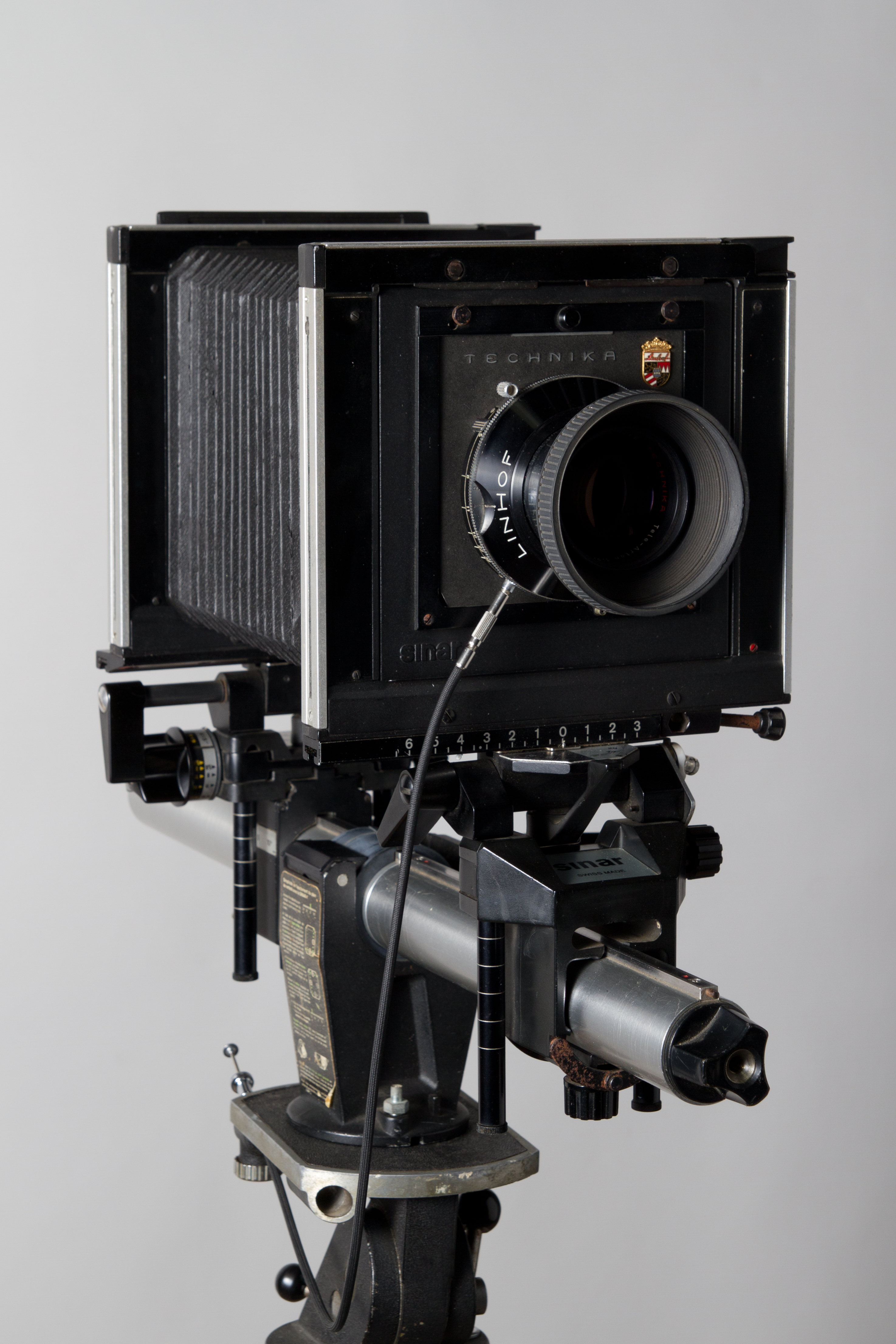 A Sinar F large format (4x5) camera. It is equipped with a Schneider Tele-Arton f:5.5 240mm lens, with Compur shutter, mounted on a Linhof Technika plate.